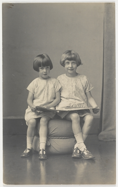 Monica Elizabeth Jolley AO (4 June 1923–13 February 2007) was an English-born award-winning writer who settled in Western Australia in the late 1950s. Format: Photograph Find more detailed information about this photograph: .au/item/itemDetailPaged.aspx?itemID=82004 Search for more great images in the State Library's collections: .au/search/SimpleSearch.aspx From the collection of the State Library of New South Wales